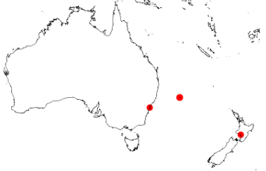 Carmichaelia exsul occurrence data from Australasian Virtual Herbarium downloaded 2 December 2019 using